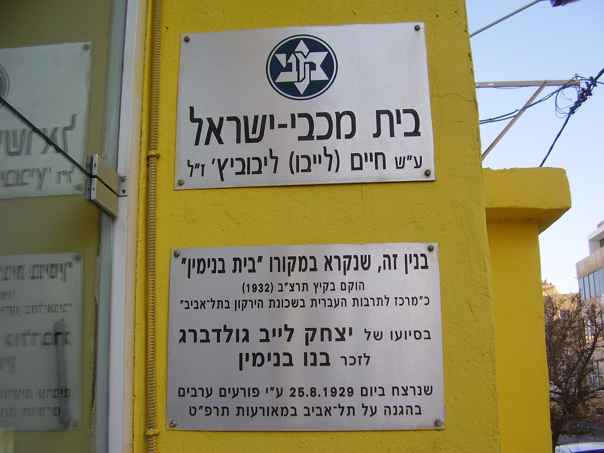 benjamin house in tel aviv